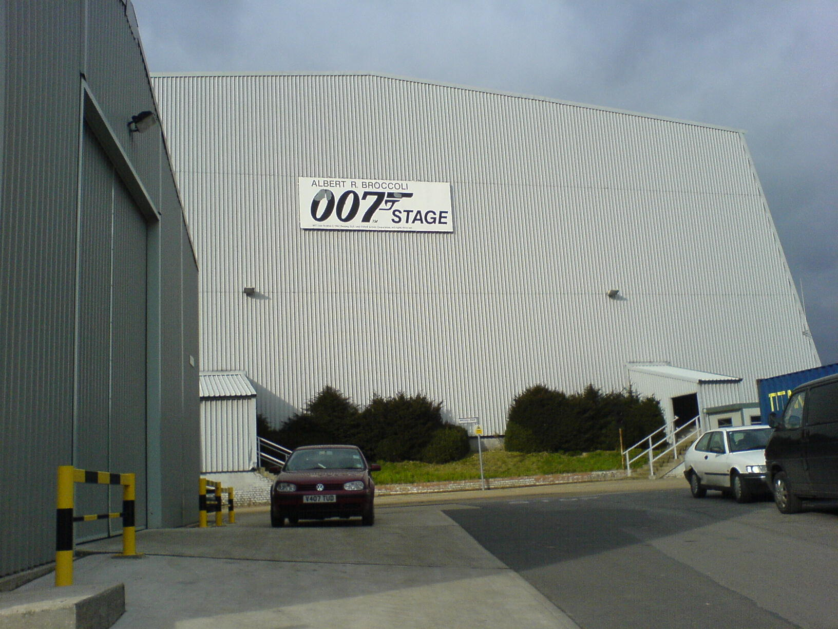 I took this pic while visiting pinewood recently. Amazing place, they have a closed set at the moment (March 2006) due to filming of the new Bond, Casino Royale. J.Smith